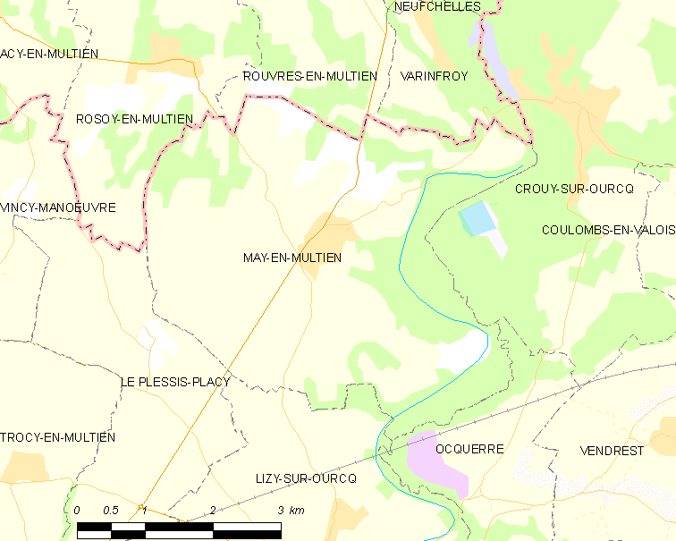 Map of French municipality May-en-Multien